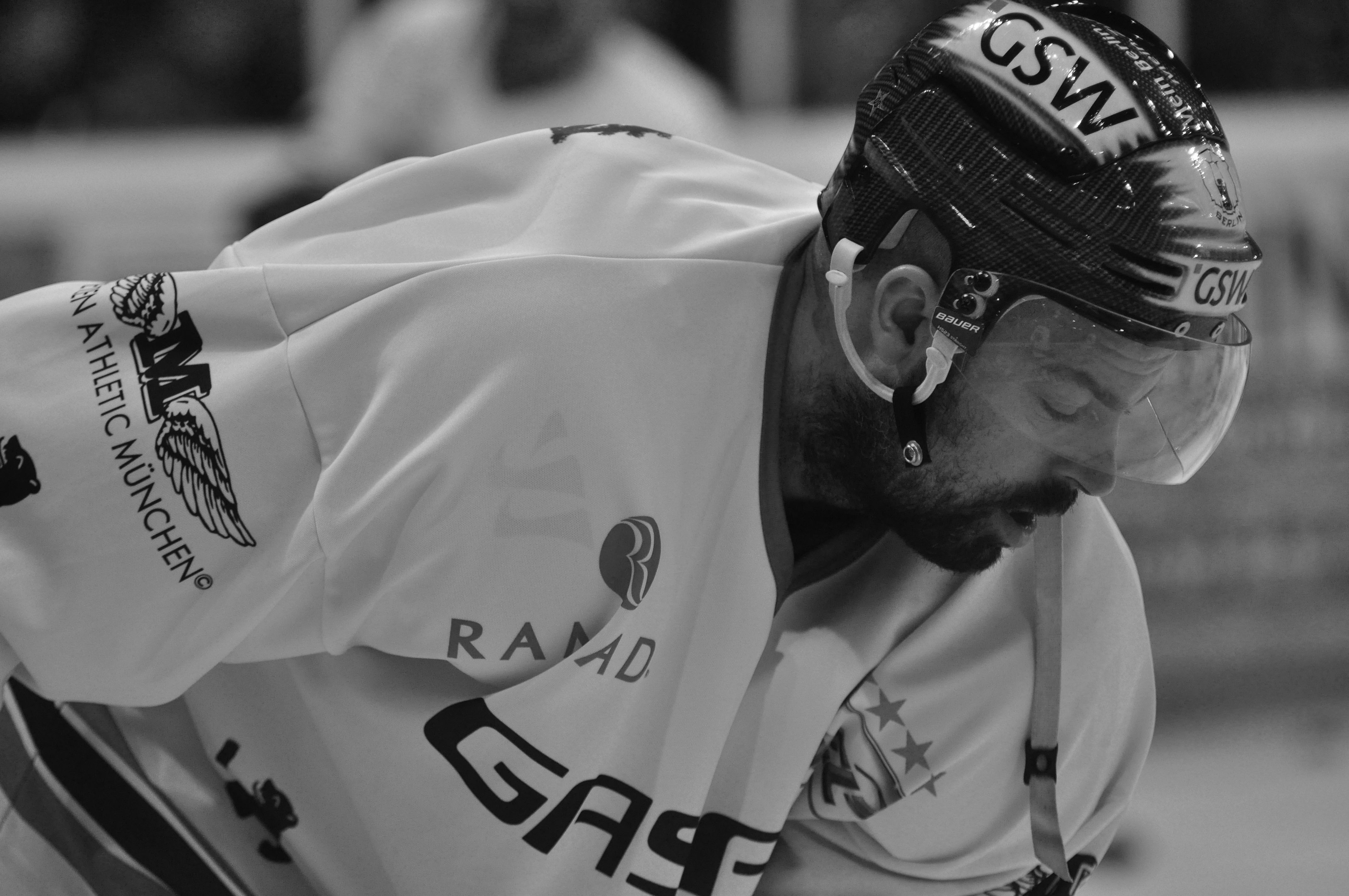 Straubing Tigers - Eisbären Berlin 11.04.2012 DEL PlayOff Halbfinale